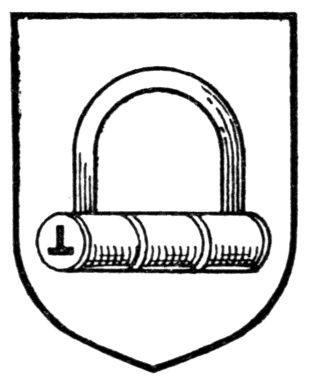 Fig. 534.—Fetterlock.